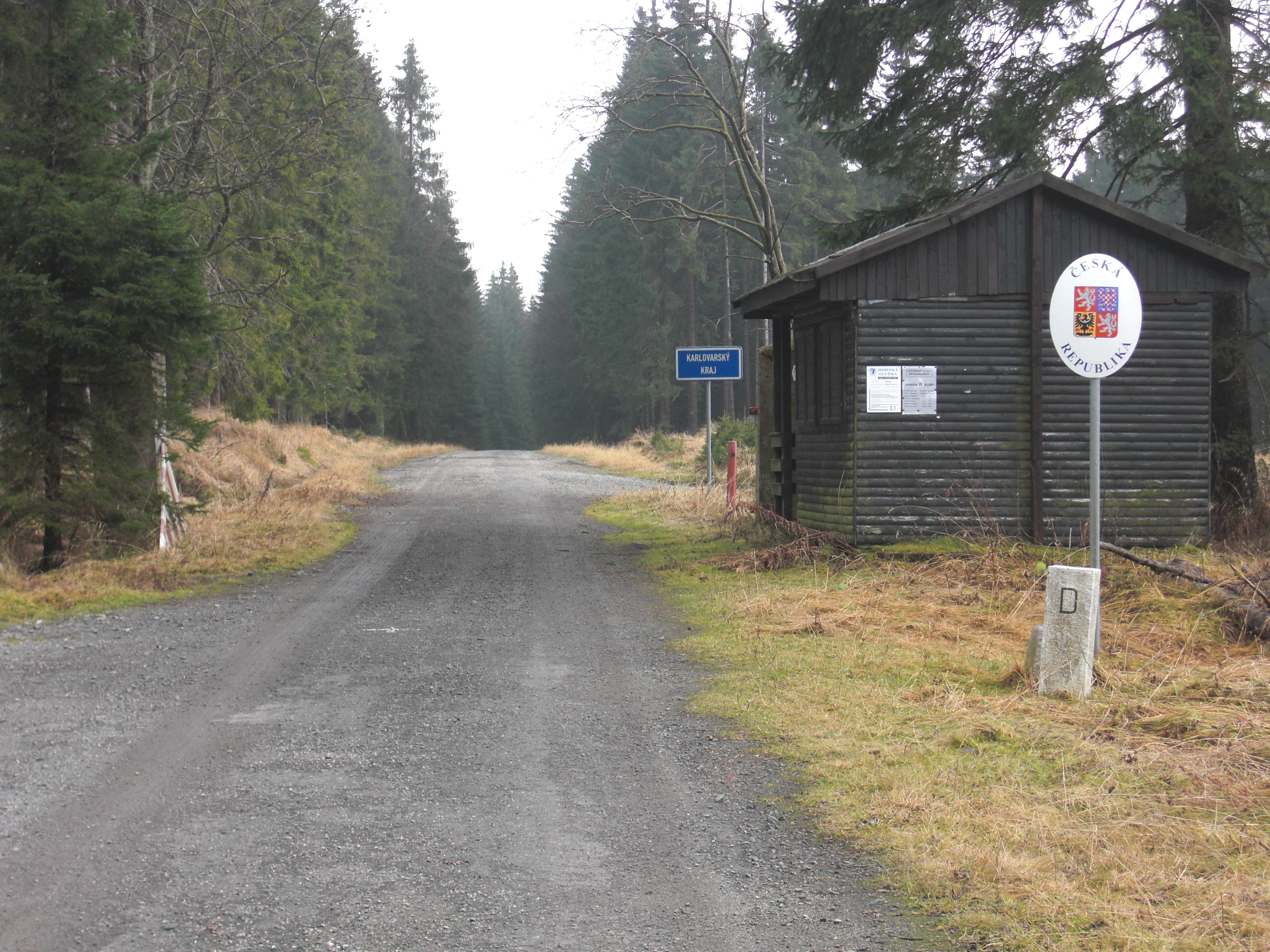 Border crossing